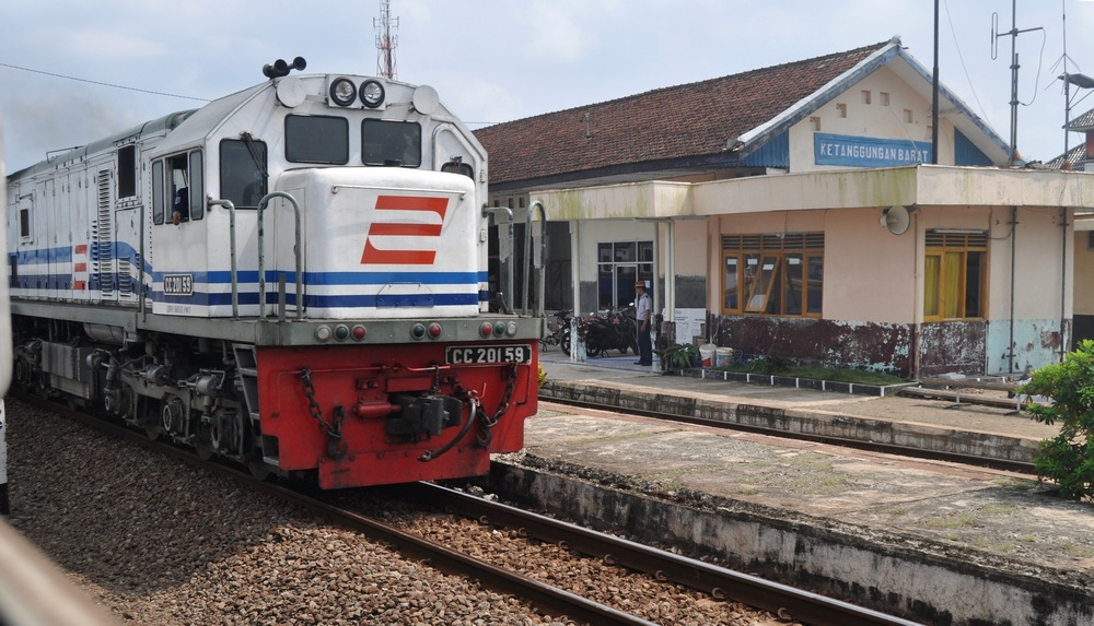 Diesel loco CC 201-59 passing Ketanggungan Barat station in Brebes, Central Java